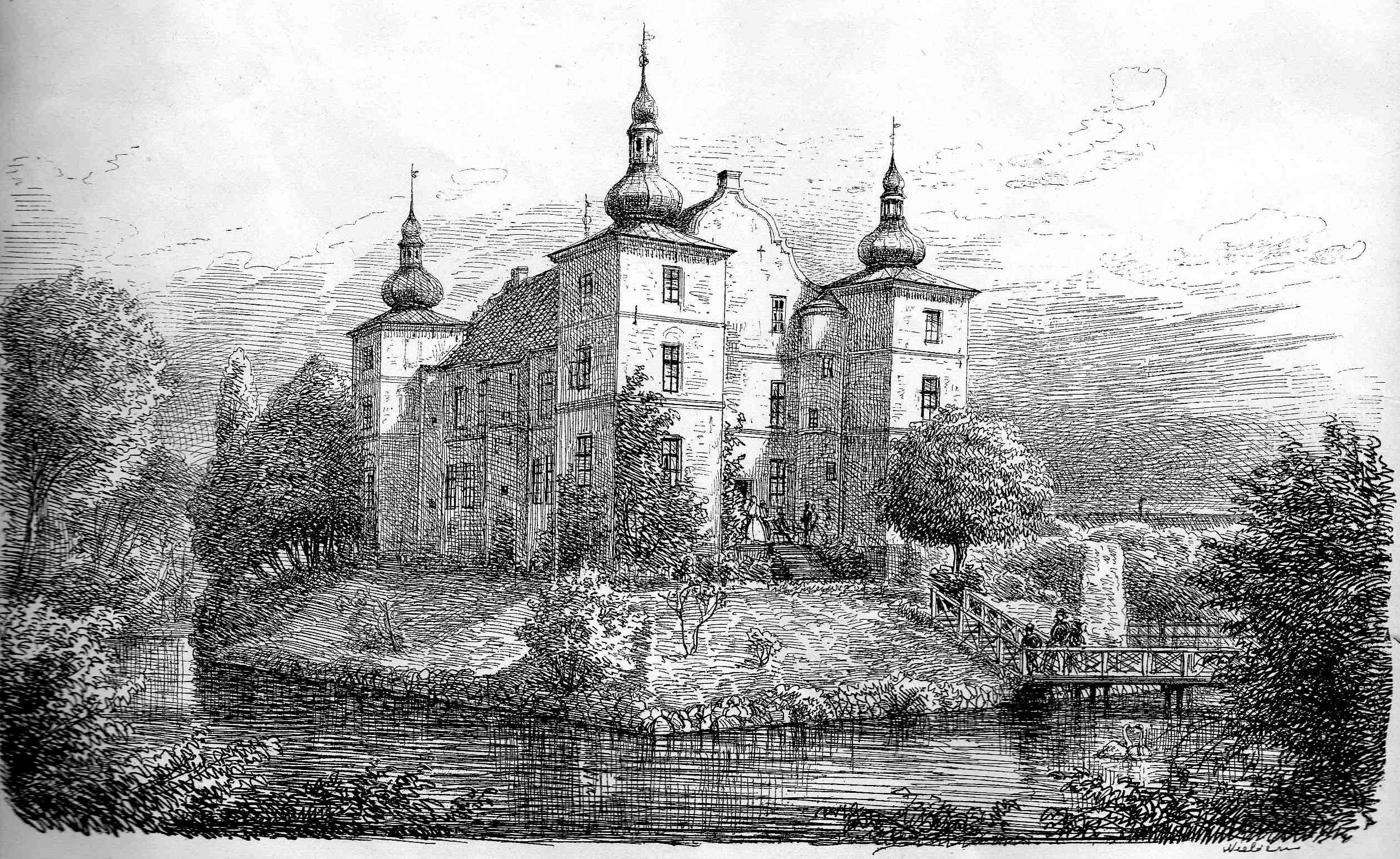 Scanned by myself from a copy of the old book in 2007. The book was graciously lent to me by Det Kongelige Garnisonsbibliotek.